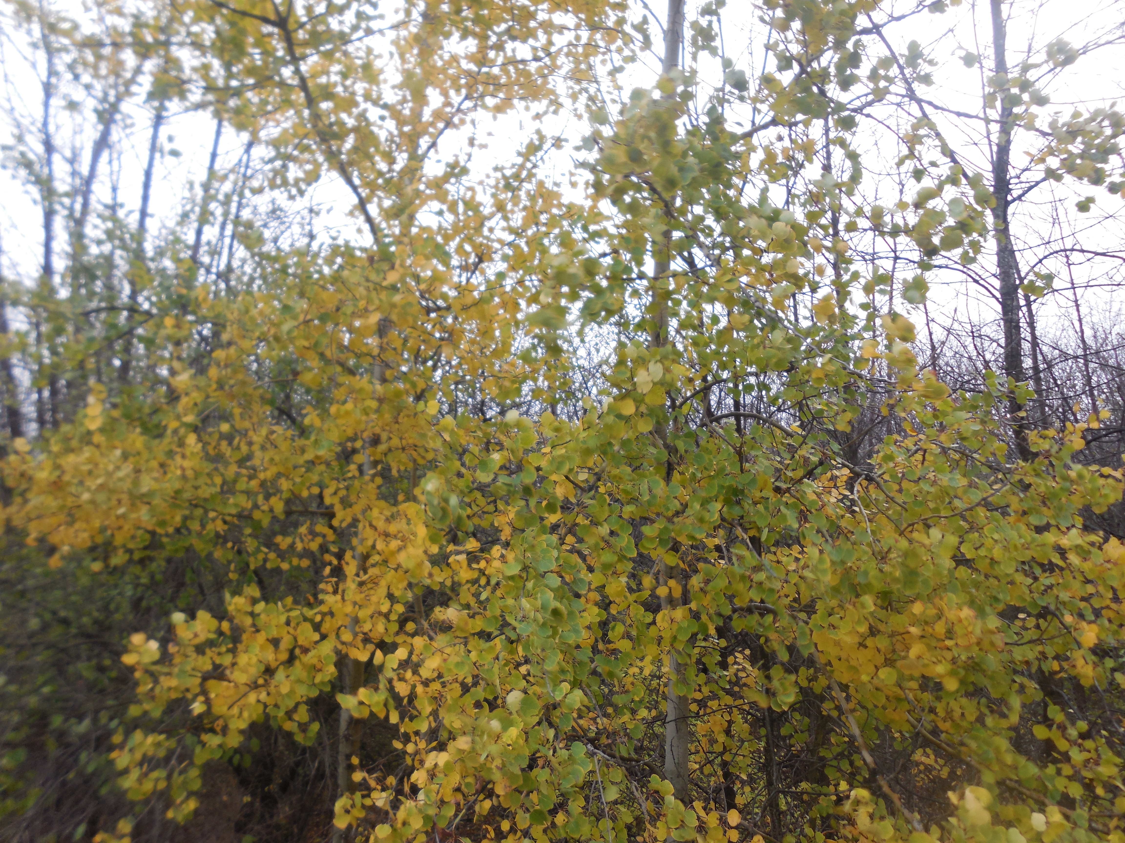 A autumn tree